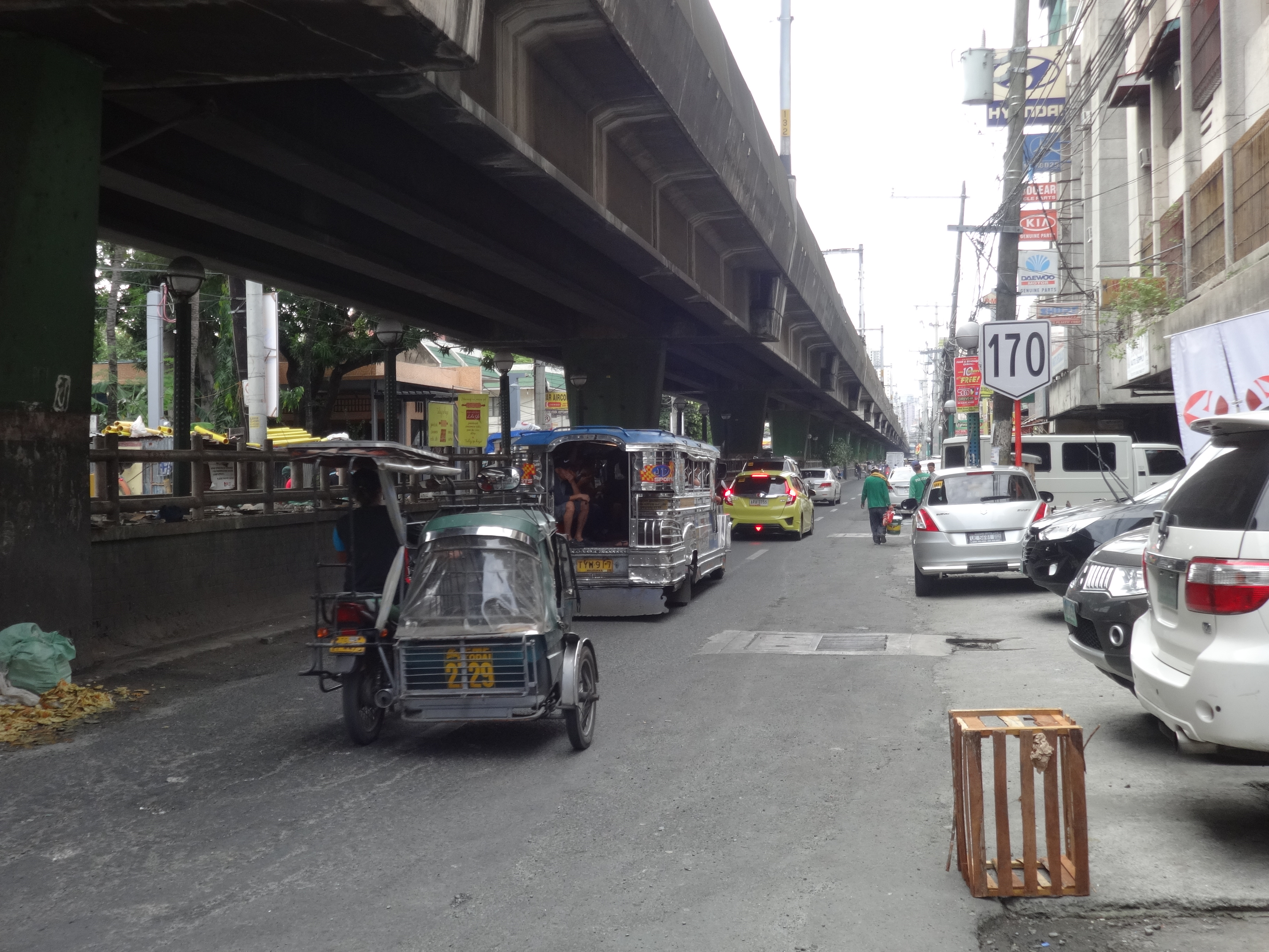 Taft Avenue in Pasay City. This is part of Route 170, designated by DPWH.